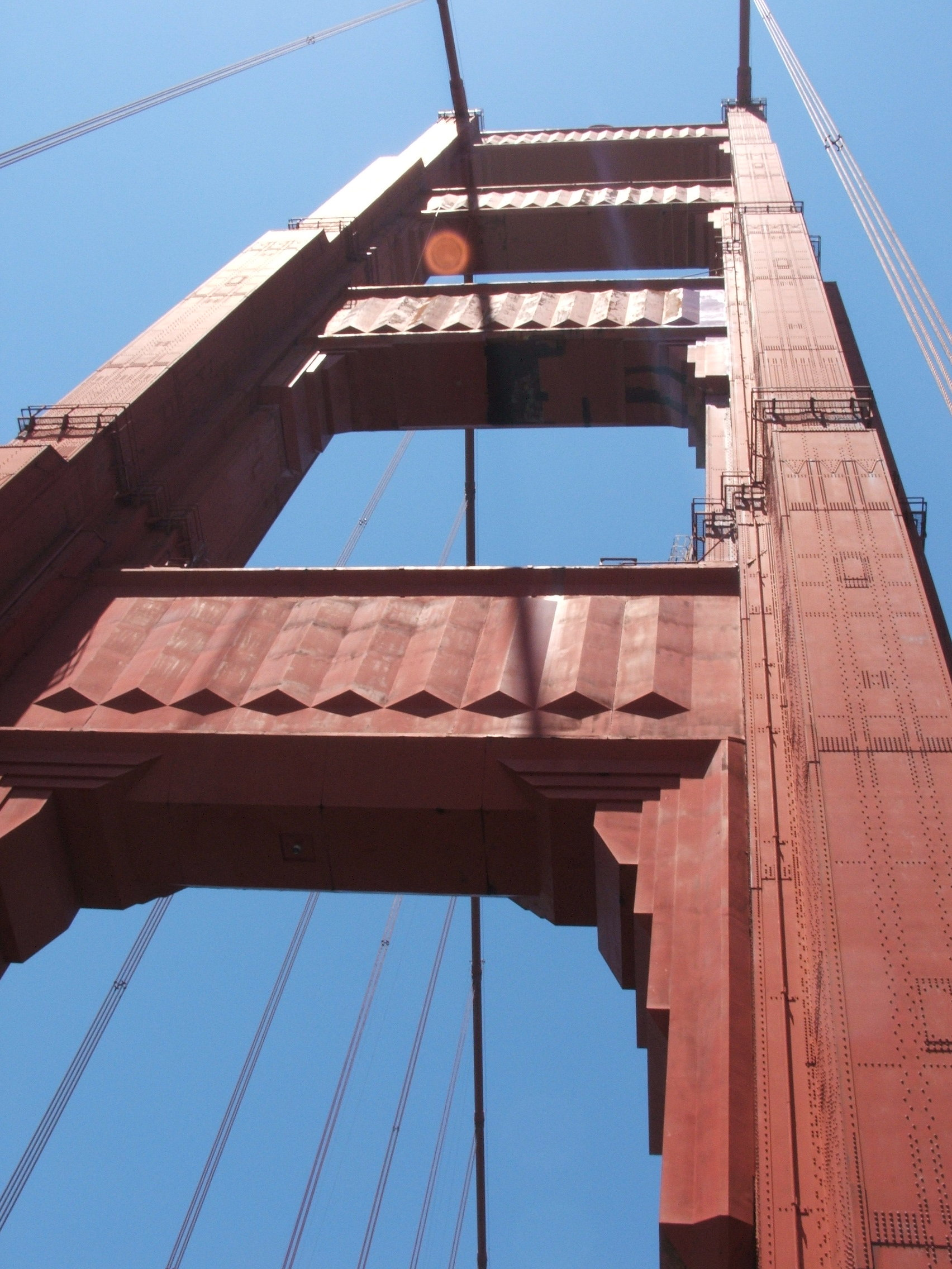 Tower of the Golden Gate Bridge with Art Deco reliefs and brackets.